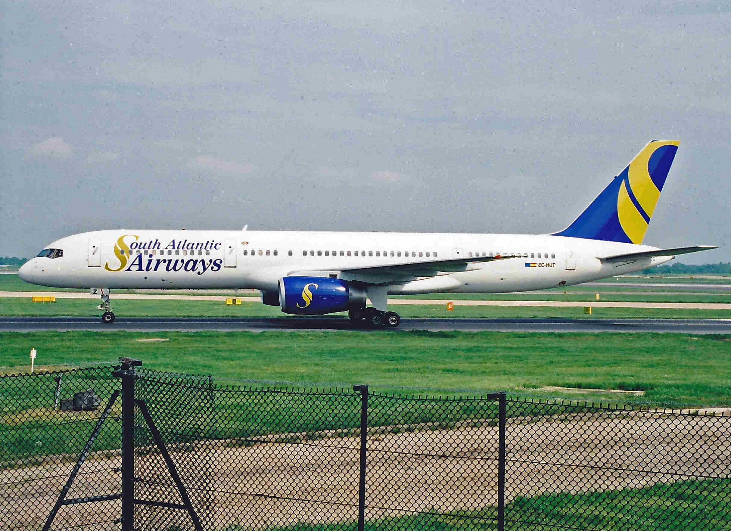 South Atlantic Airways, yet another one-season, one-aircraft airline.